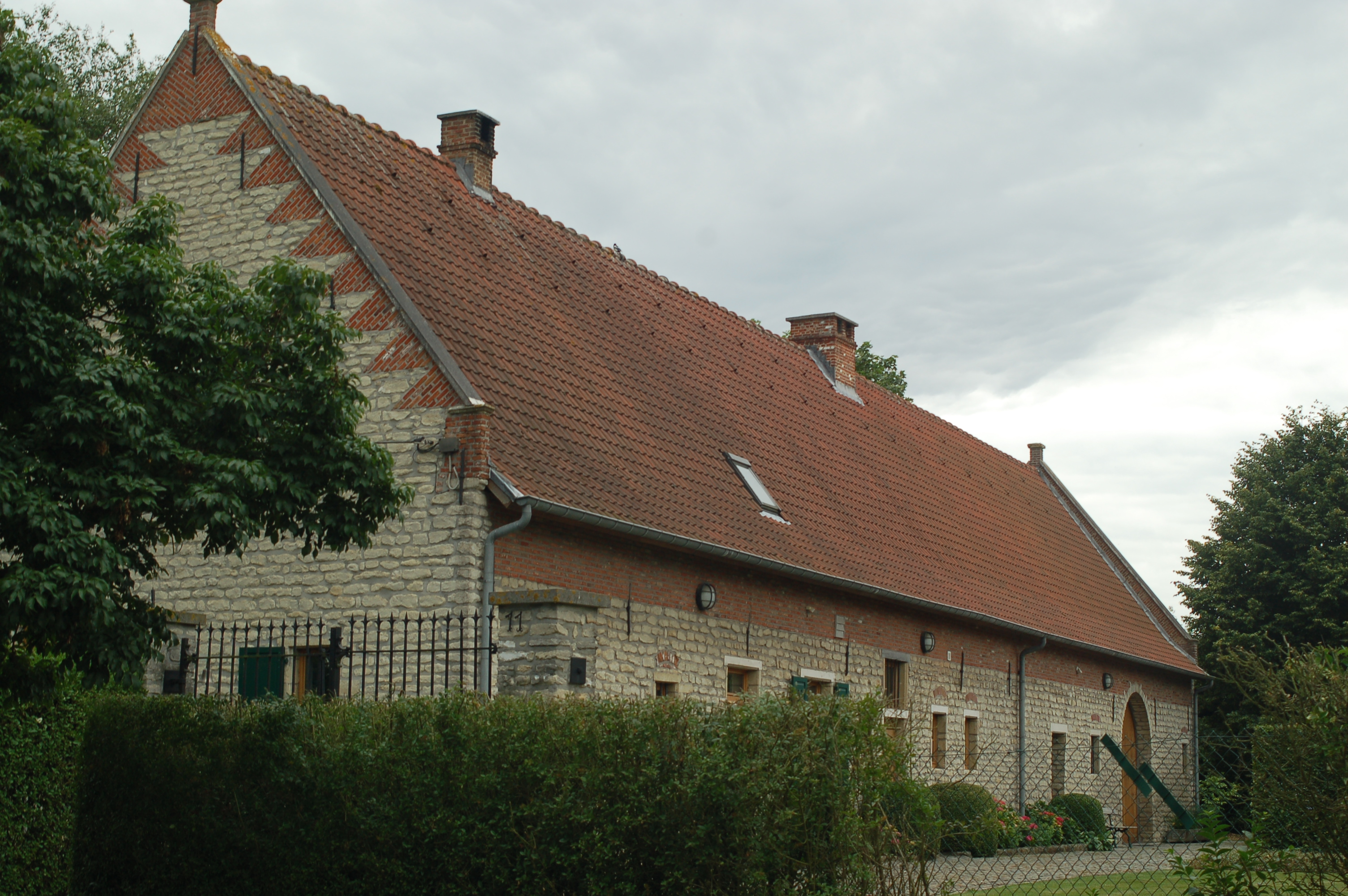 Schaliënhof building in Zemst-Bos